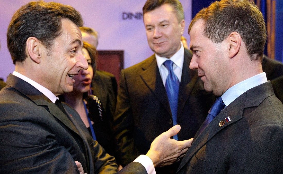 Before the beginning of the Nuclear Security Summit with President of France Nicolas Sarkozy.